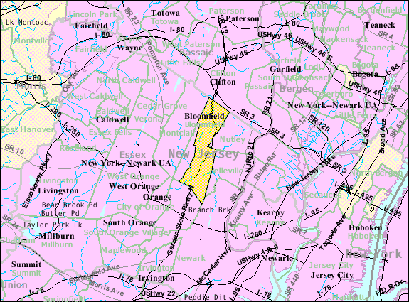 Census Bureau map of Bloomfield, New Jersey